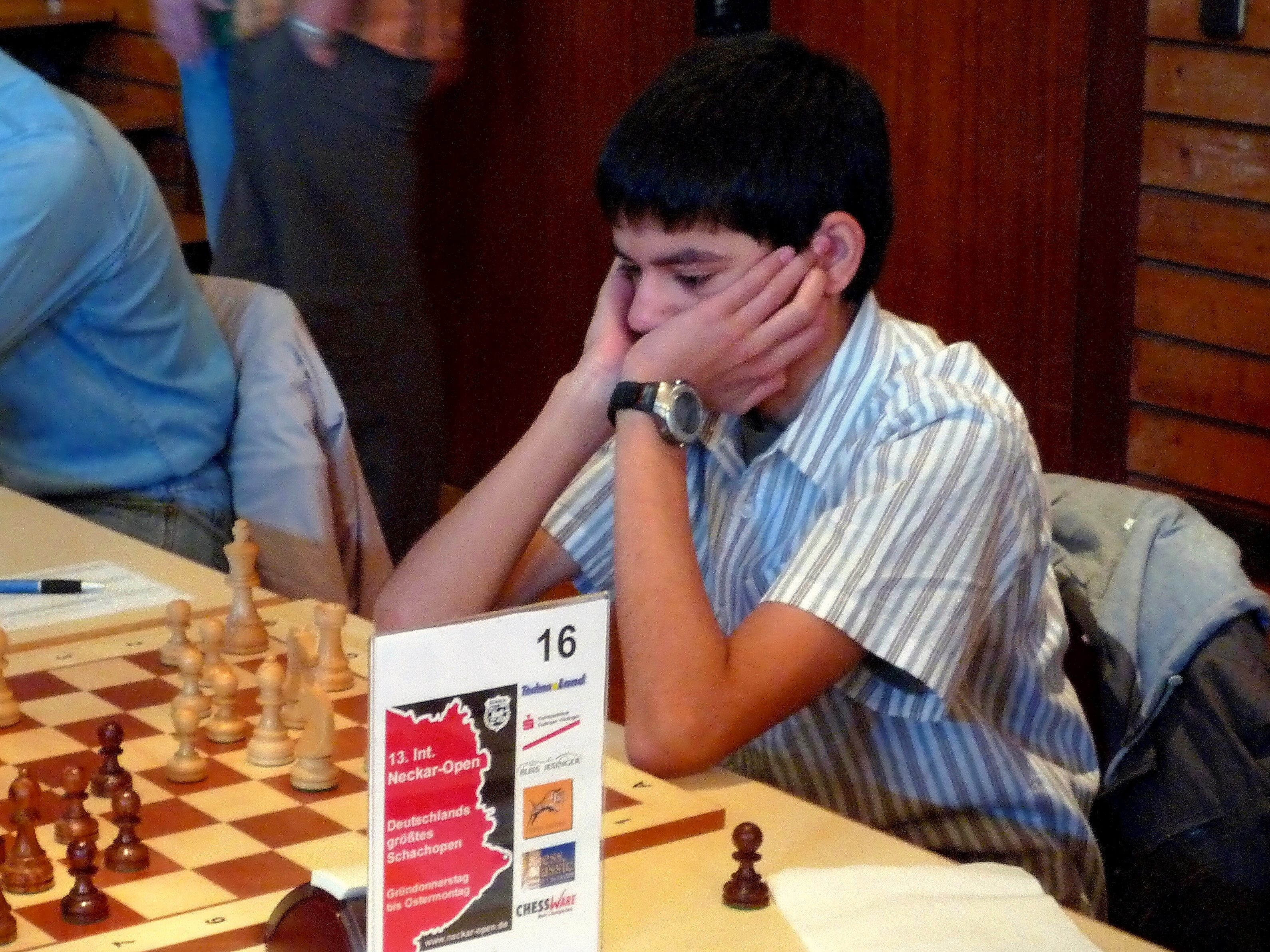 Anish Giri, Netherlands, Chess Tournament Neckar-Open 2009 in Deizisau (Germany)